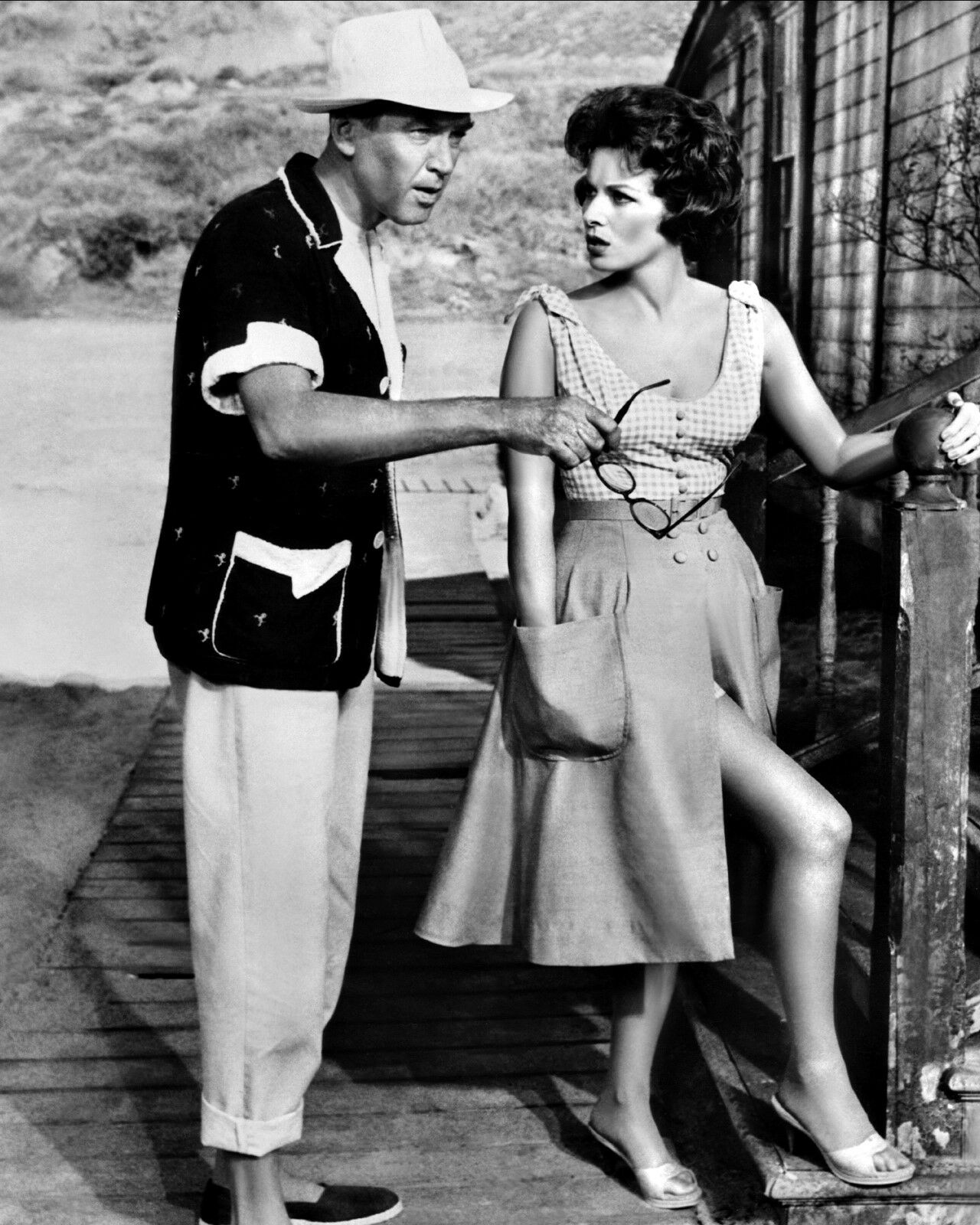 James Stewart & Maureen O'Hara in American comedy film Mr. Hobbs Takes a Vacation (1962). No copyright notice.